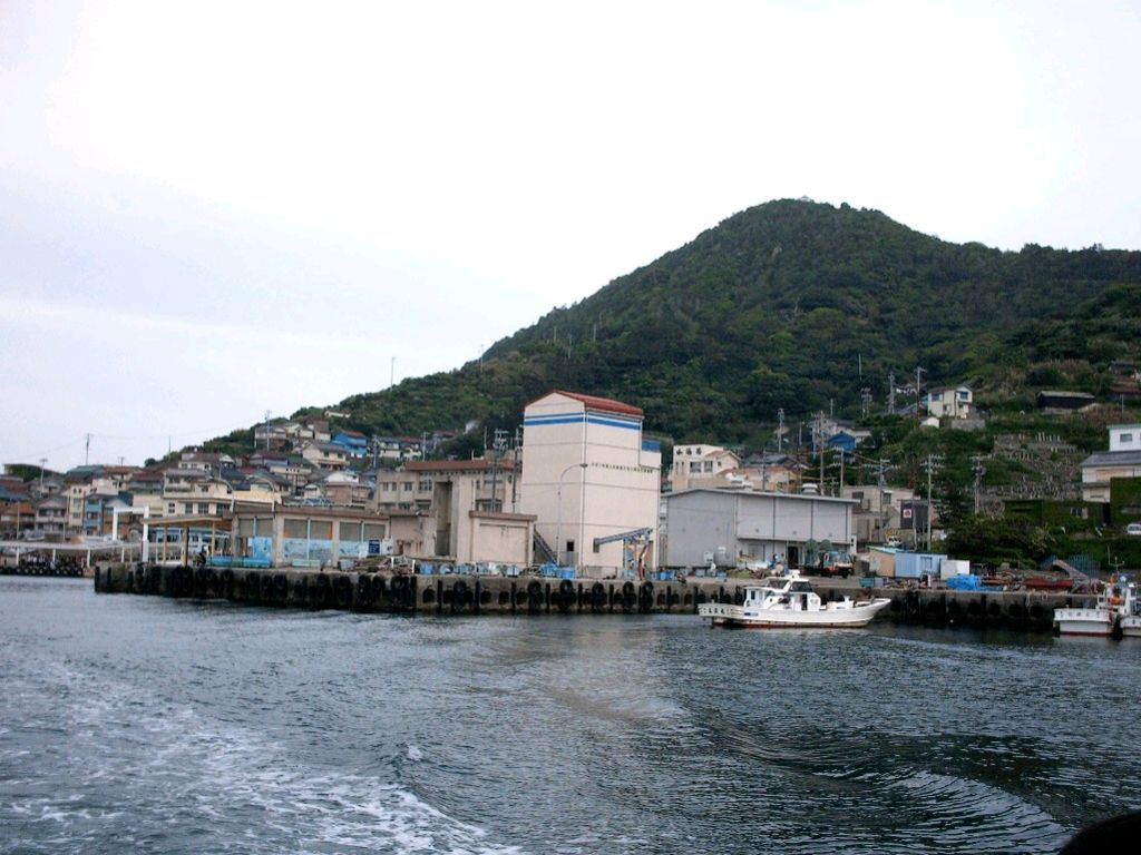 The Port of Kamijima, an iland in Toba city Mie Prf. Japan.